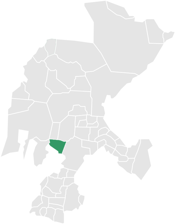 Map of the Municipality of Tepetongo in Zacatecas, México.